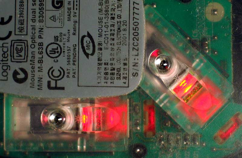 Mouse Logitech Optical Dual